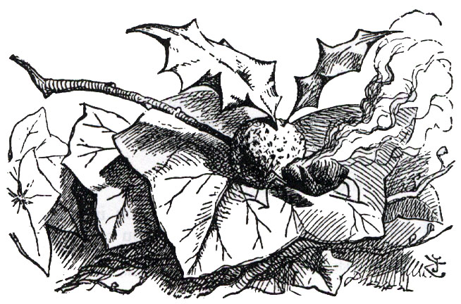 John Tenniel's illustration of a snap-dragon-fly for Through the Looking-Glass. Taken and cleaned up from Victorian Web.